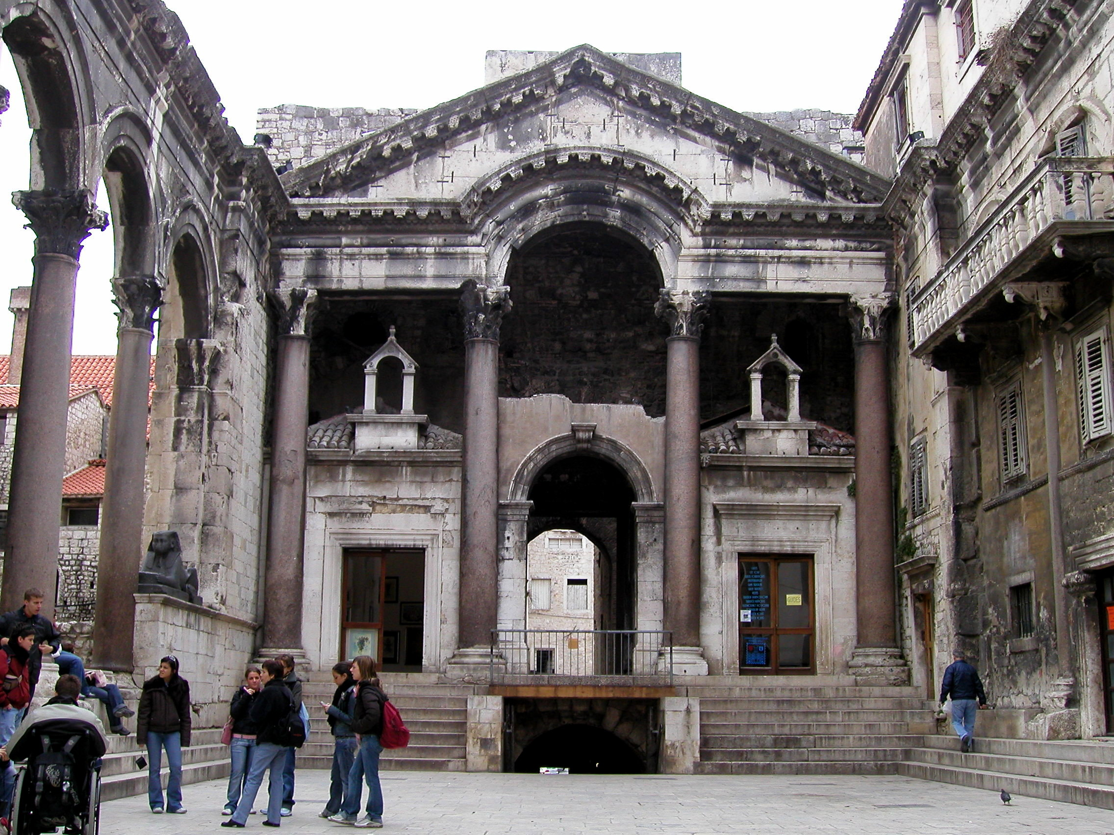 Diocletian's Palace, Split, Croatia